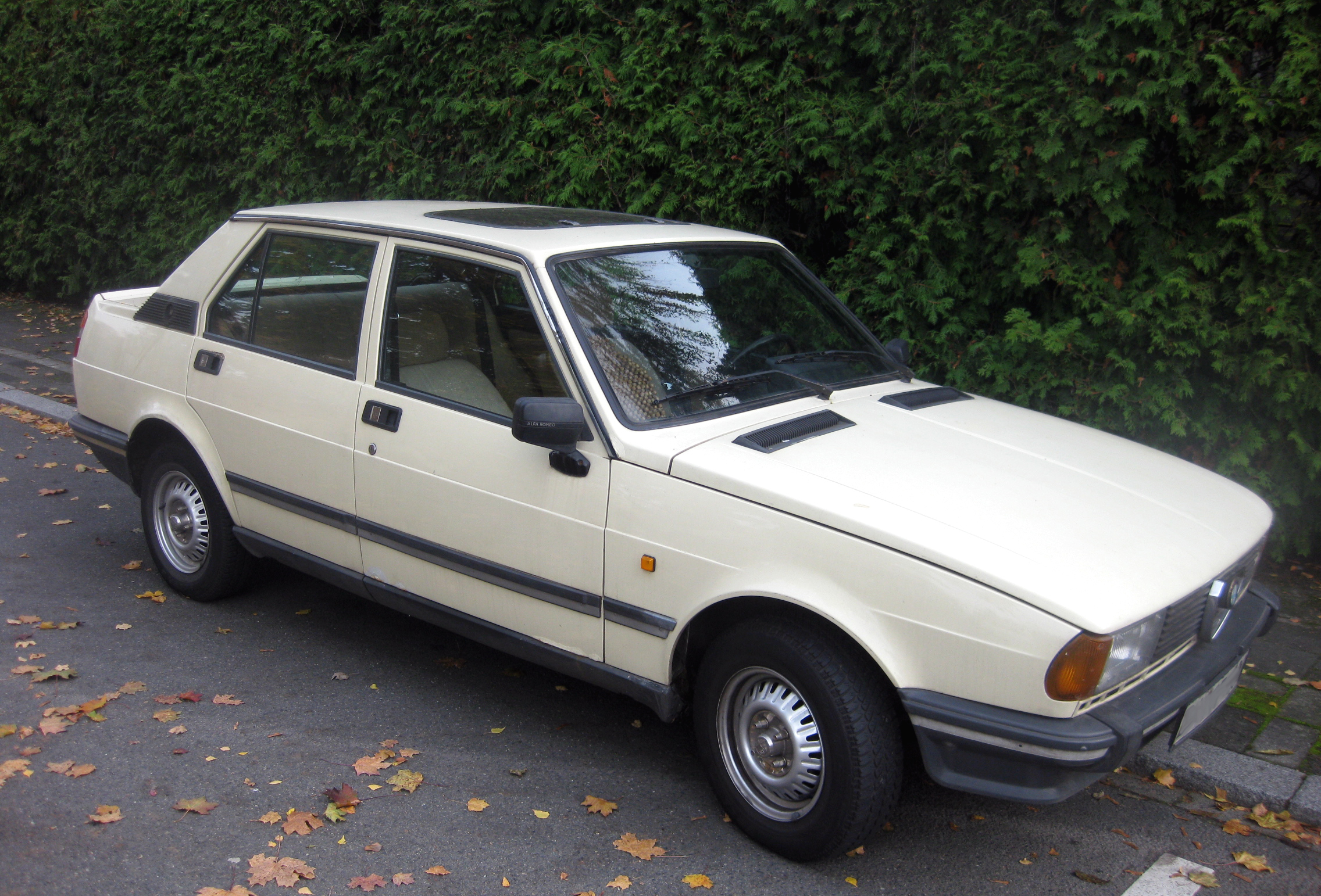 Interior of an Alfa Romeo Guilietta nova, still in use in its unrestaured condition, 2009 in Germany.